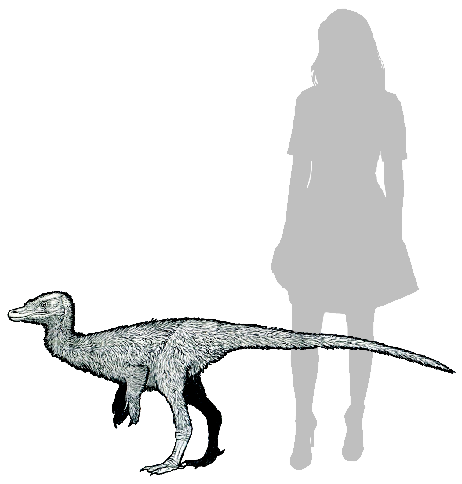 Scaled reconstruction of Xiyunykus. (Tom Parker, 2018)